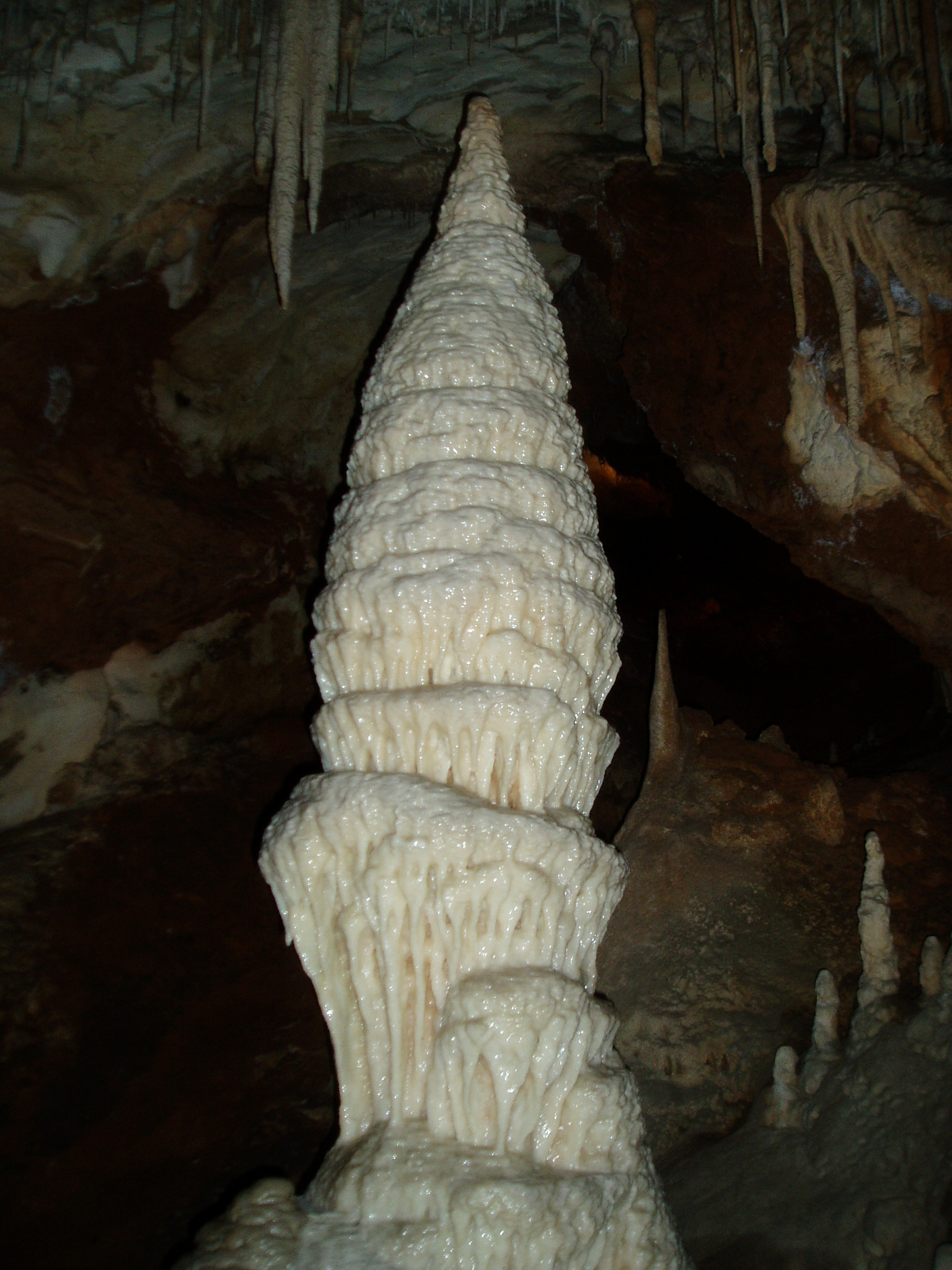 Its even more ghostly white in real life. (Stalagmite in Jenolan "River Cave" known as "The Minaret")